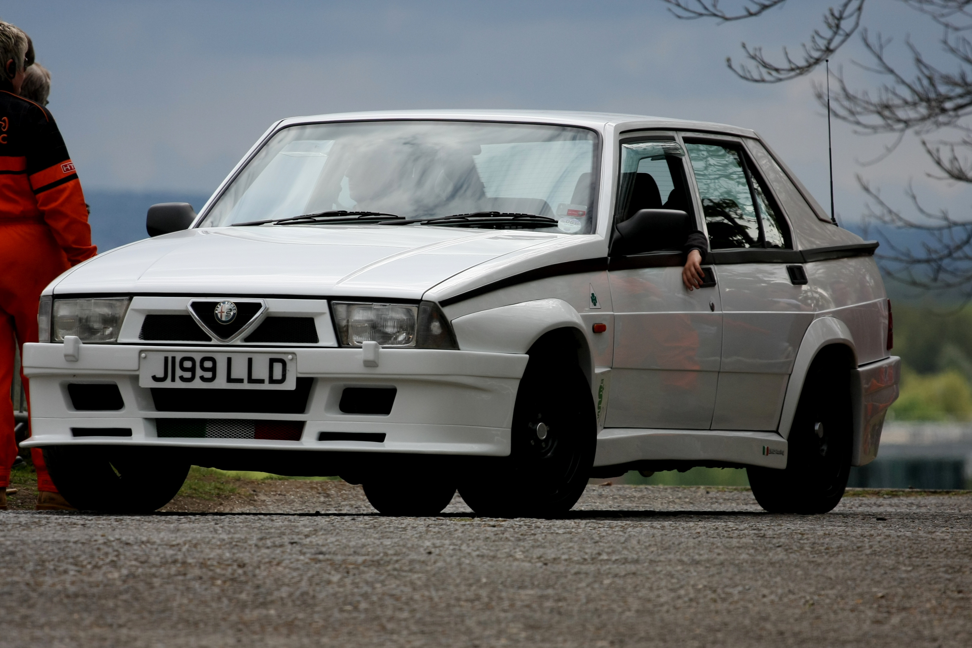 1991 Alfa Romeo 75 2.0 with a wing kit, at Auto Italia Spring car day Brooklands May 2010